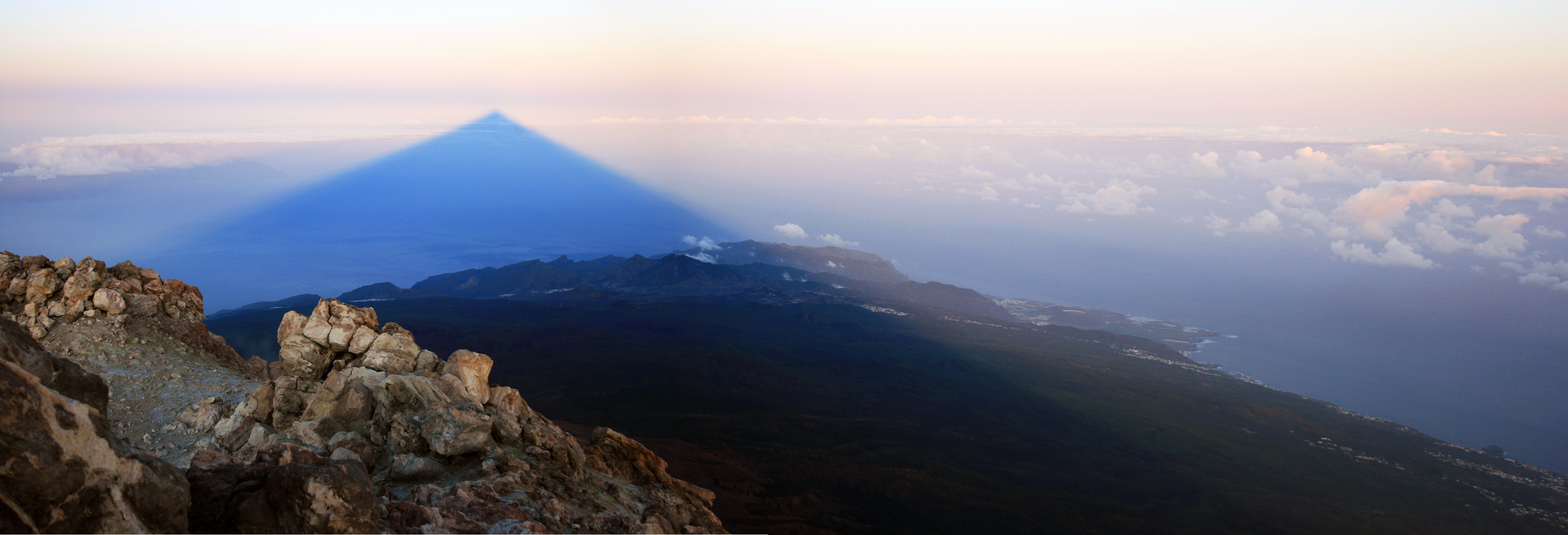 Shadow of Pico del Teide (Tenerif, Canary Islands) on the clouds and horizon